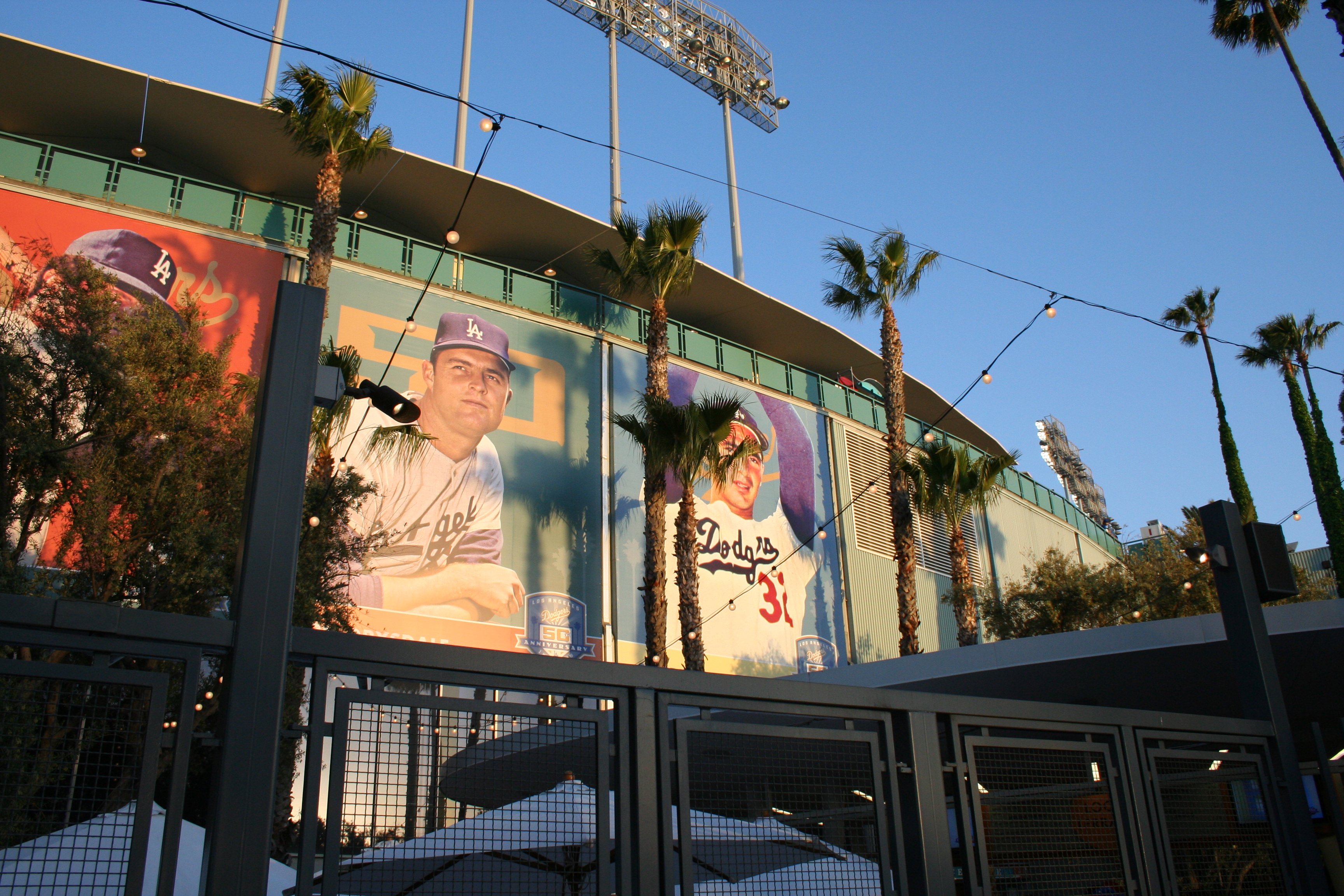 Giant posters of Dodger greats posted on the exterior of the Dodger Stadium